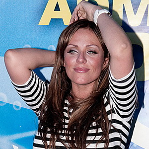 Yulia Nachalova at the opening of the summer season in the yacht club "Admiral" (June 5, 2011).